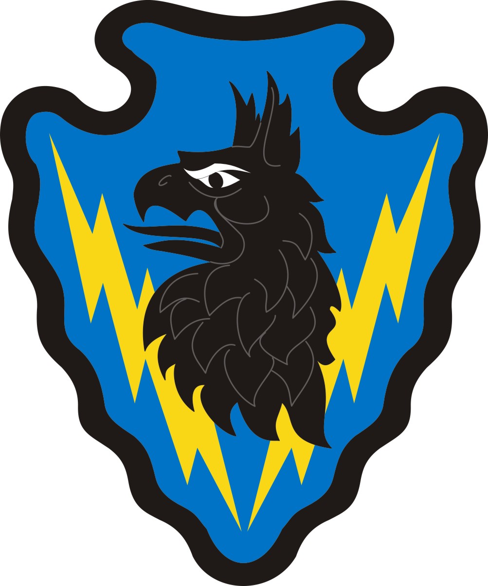 Shoulder sleeve insignia for the 71st Battlefield Surveillance Brigade